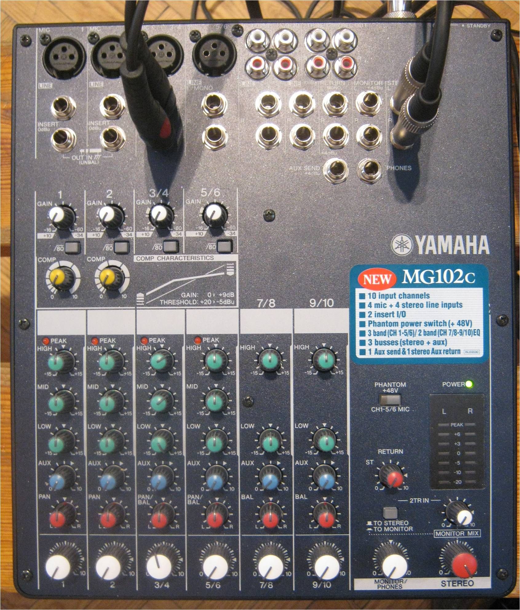 Yamaha MG102c (analog mixer)